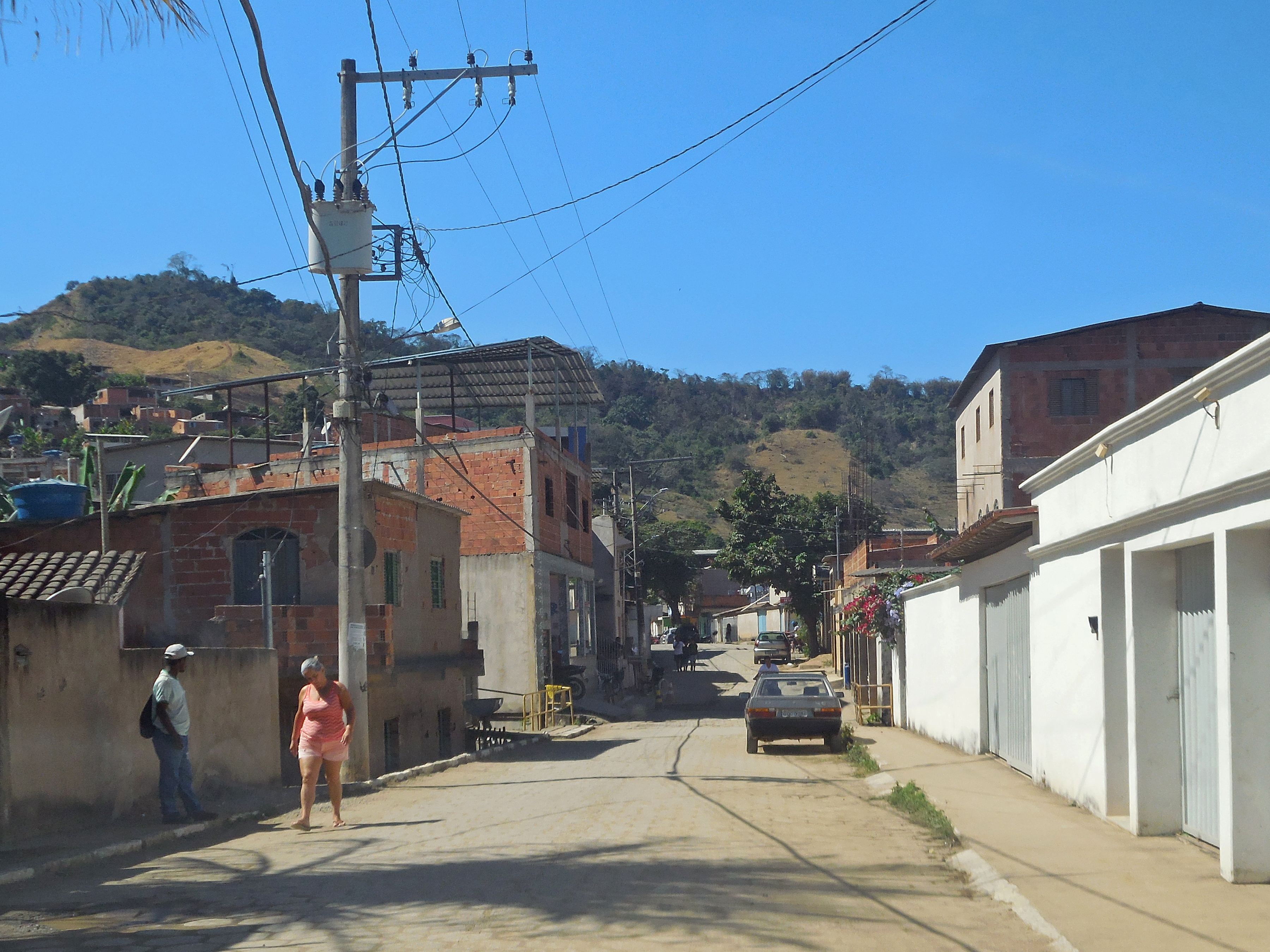 Residential street in the downtown of Santana do Paraíso, Minas Gerais, Brazil.